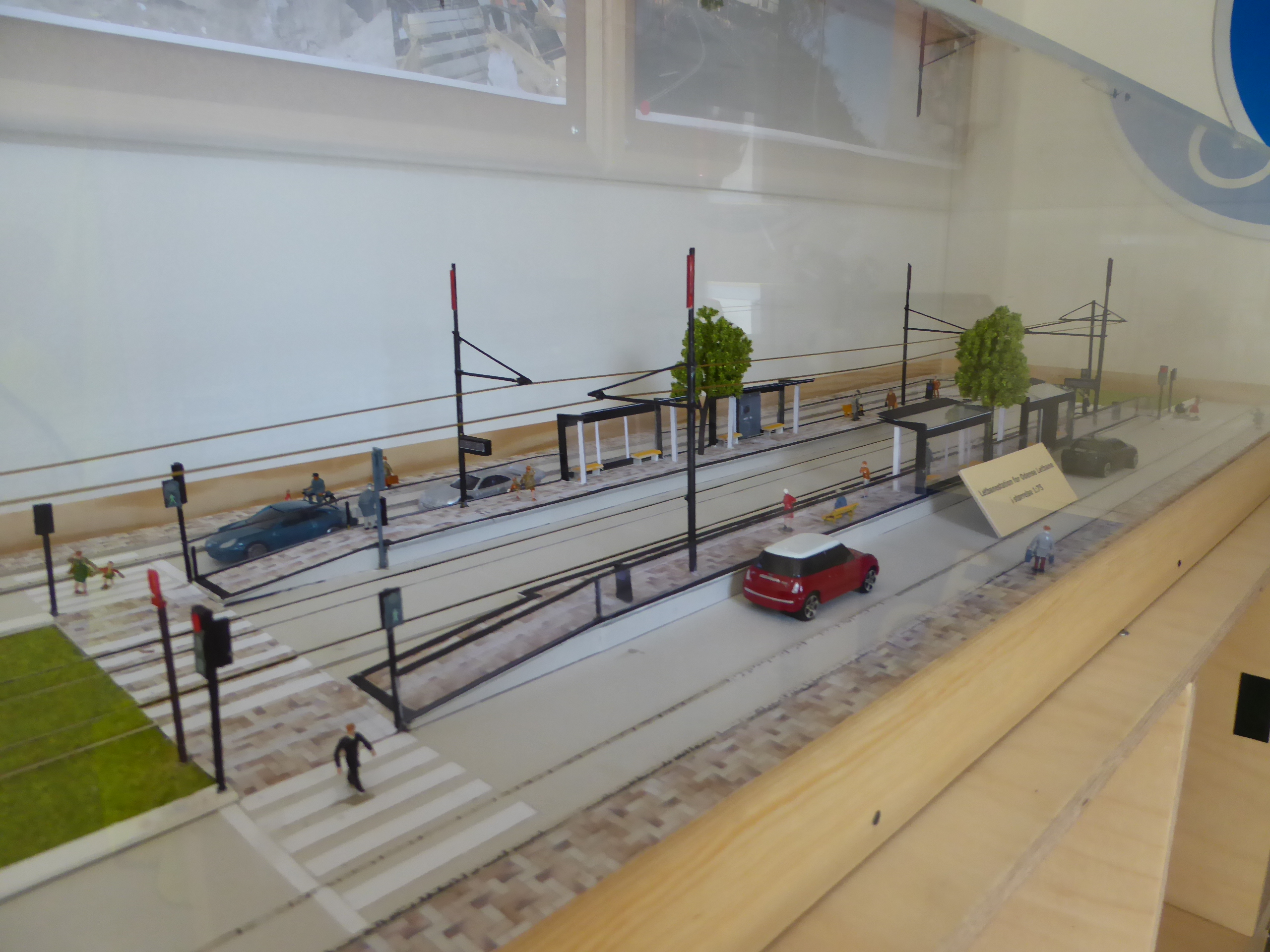 Odense Letbane visited Sporvejsmuseet Skjoldenæsholm with a mobile exhibition. Model in 1:75 of a future station of Odense Letbane.